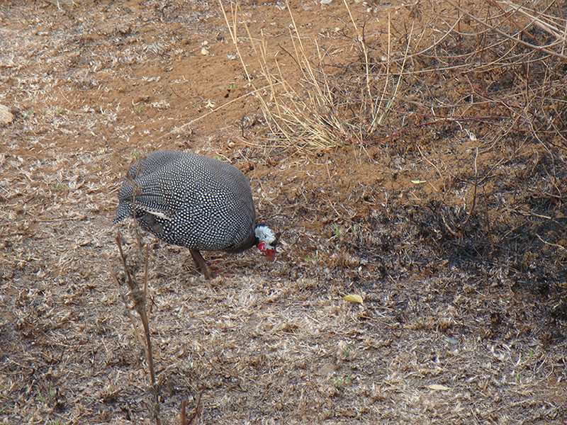 Guinea Fowl Domesticated